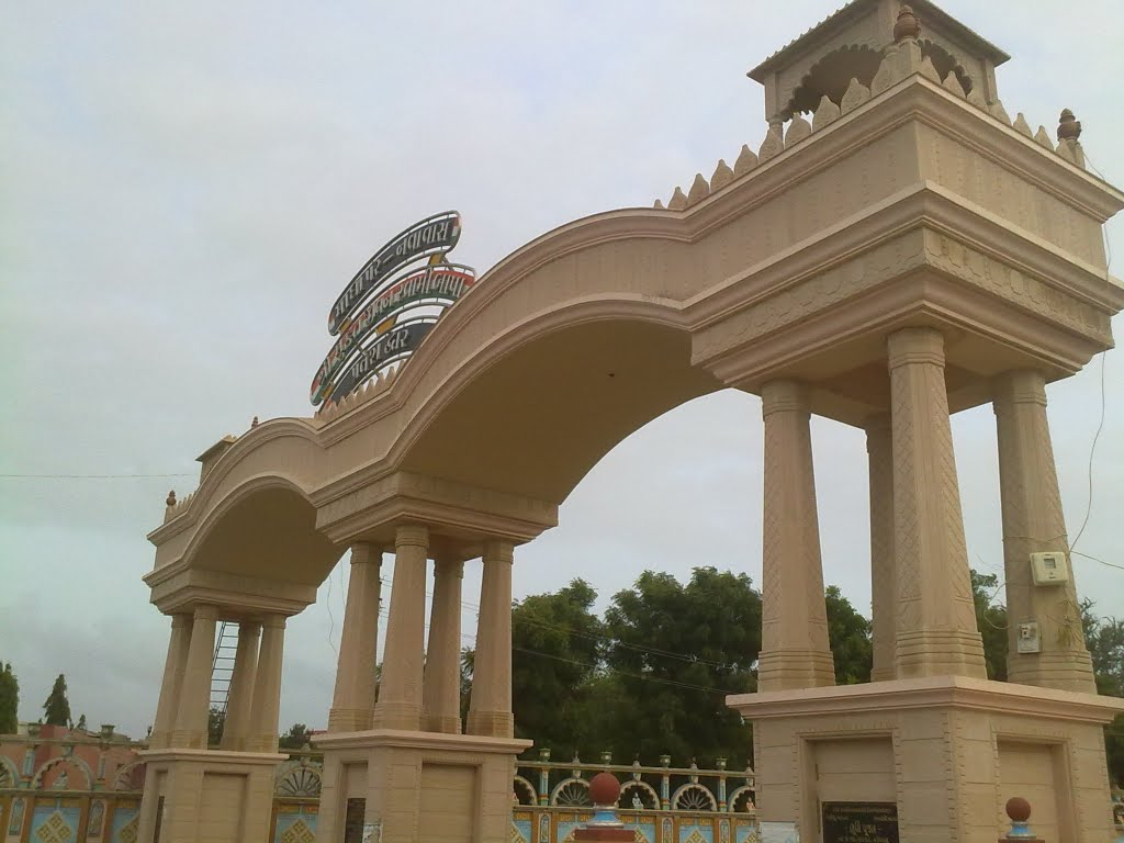 The Main Entrance Gate of Madhapar